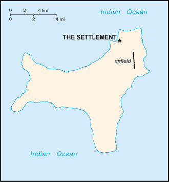 A map of Christmas Island, showing major points of interest.